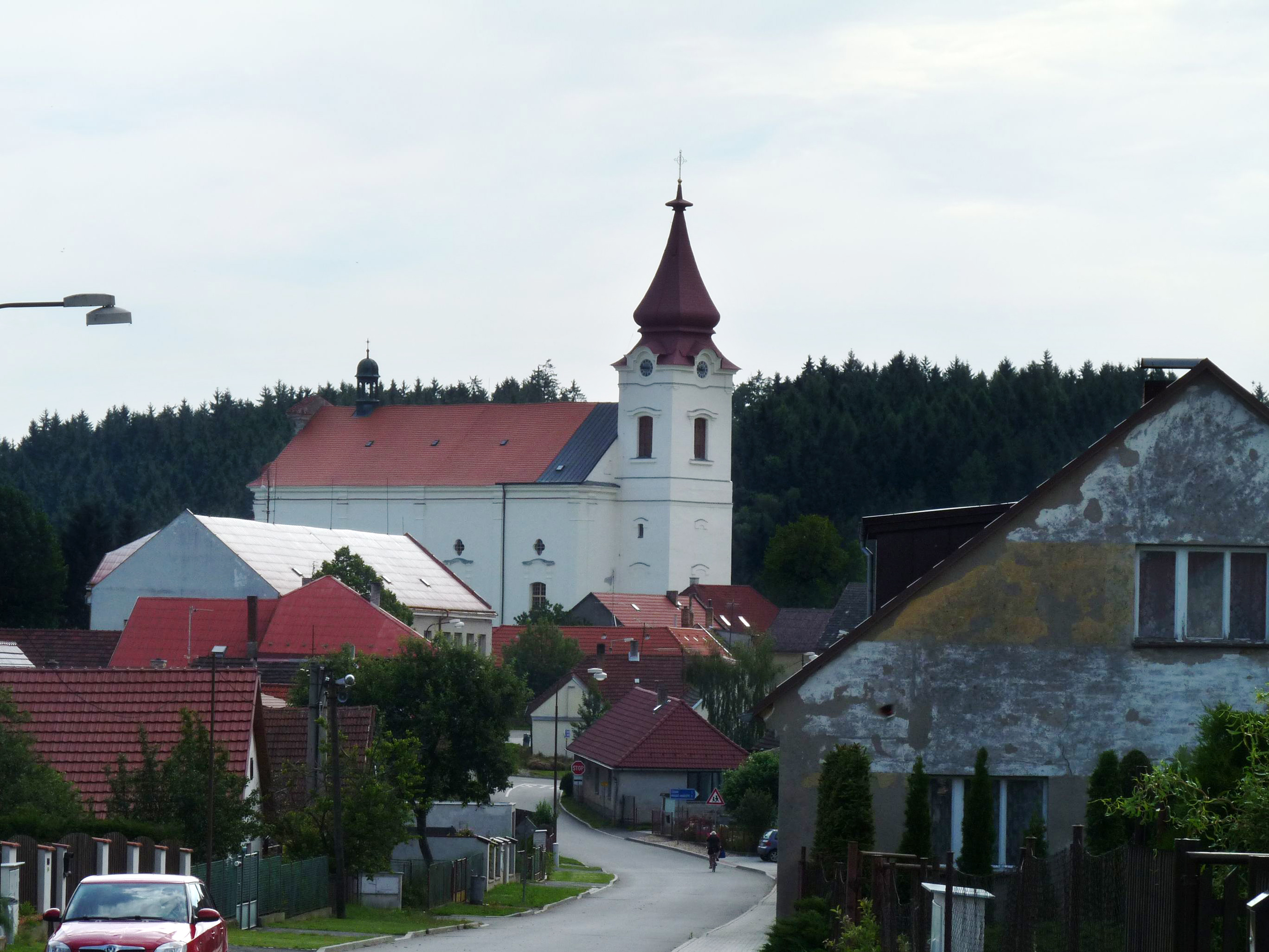 Saint Thomas Becket Church in the market town of Nová Cerekev, Pelhřimov District, Czech Republic.